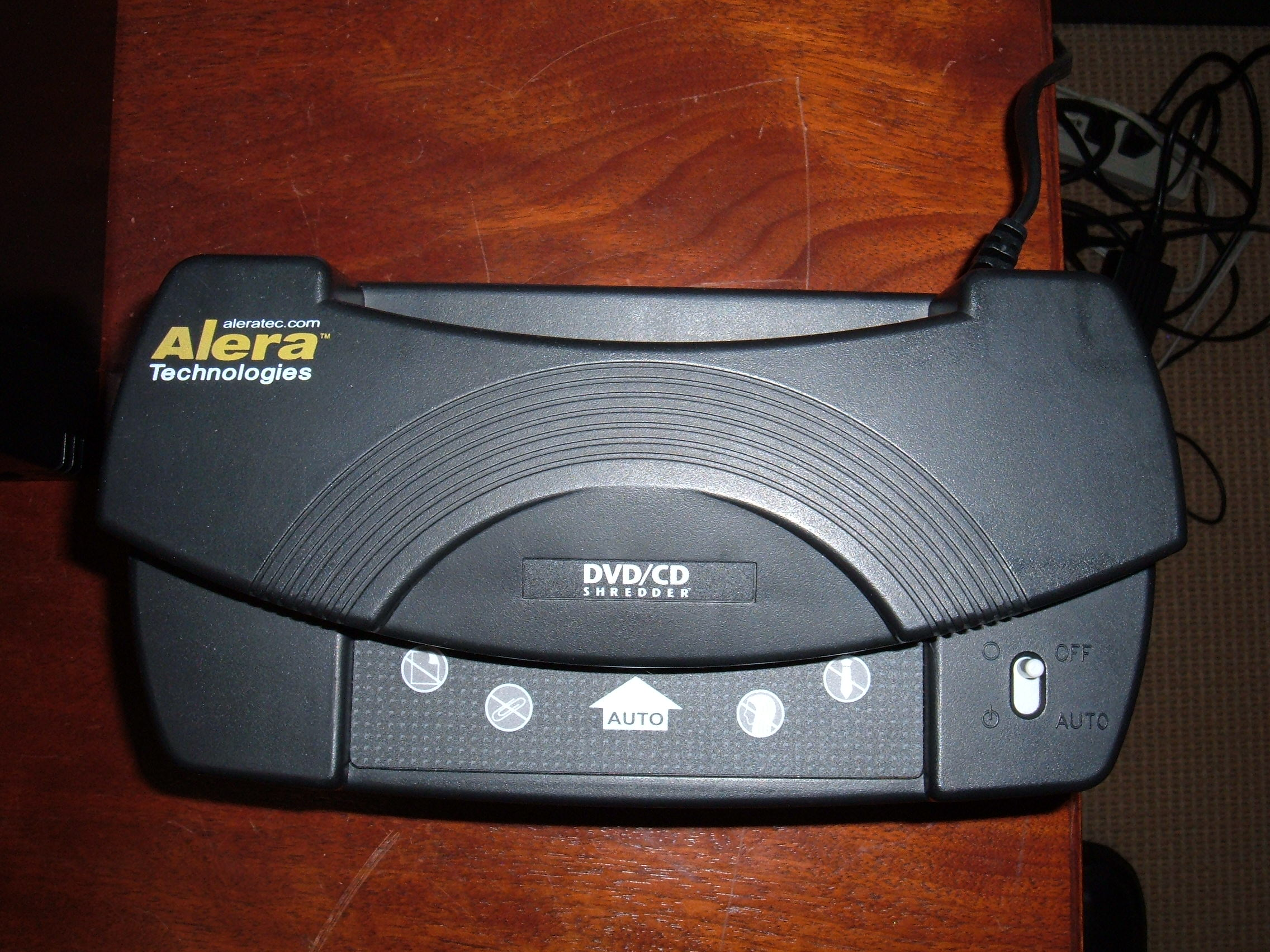 Alera DVD/CD shredder, which renders the front and back of the disc unreadable.